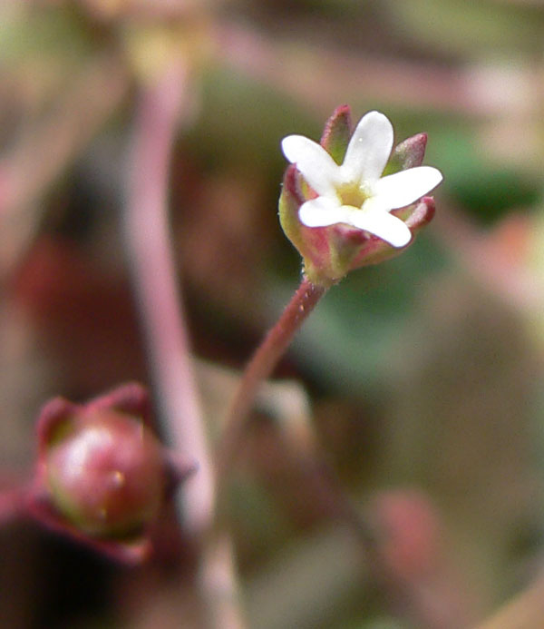 Androsace septentrionalis subsp. subumbellata in avalanche chute SSW of the ski area in Lee Canyon, Spring Mountains, southern Nevada (elev. about 2900 m)